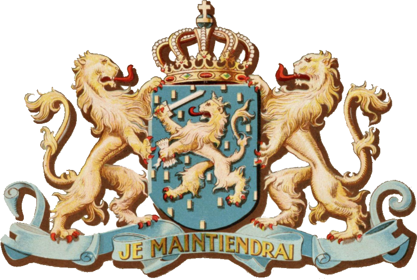 Coat of arms of Dutch East Indies, based on pictures here: [1], [2], and [3].